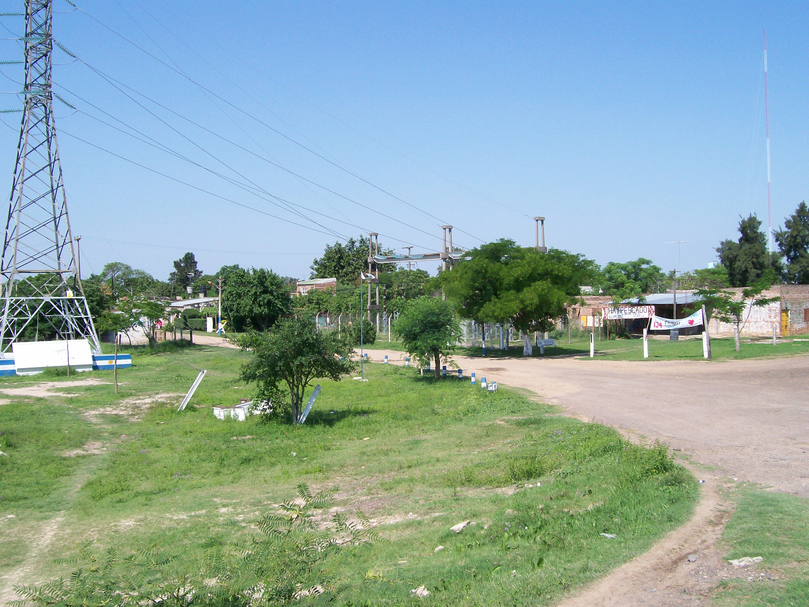 Main street of Barrio San Pedro Pescador (Chaco Province, Argentina) seen from General Manuel Belgrano Bridge.